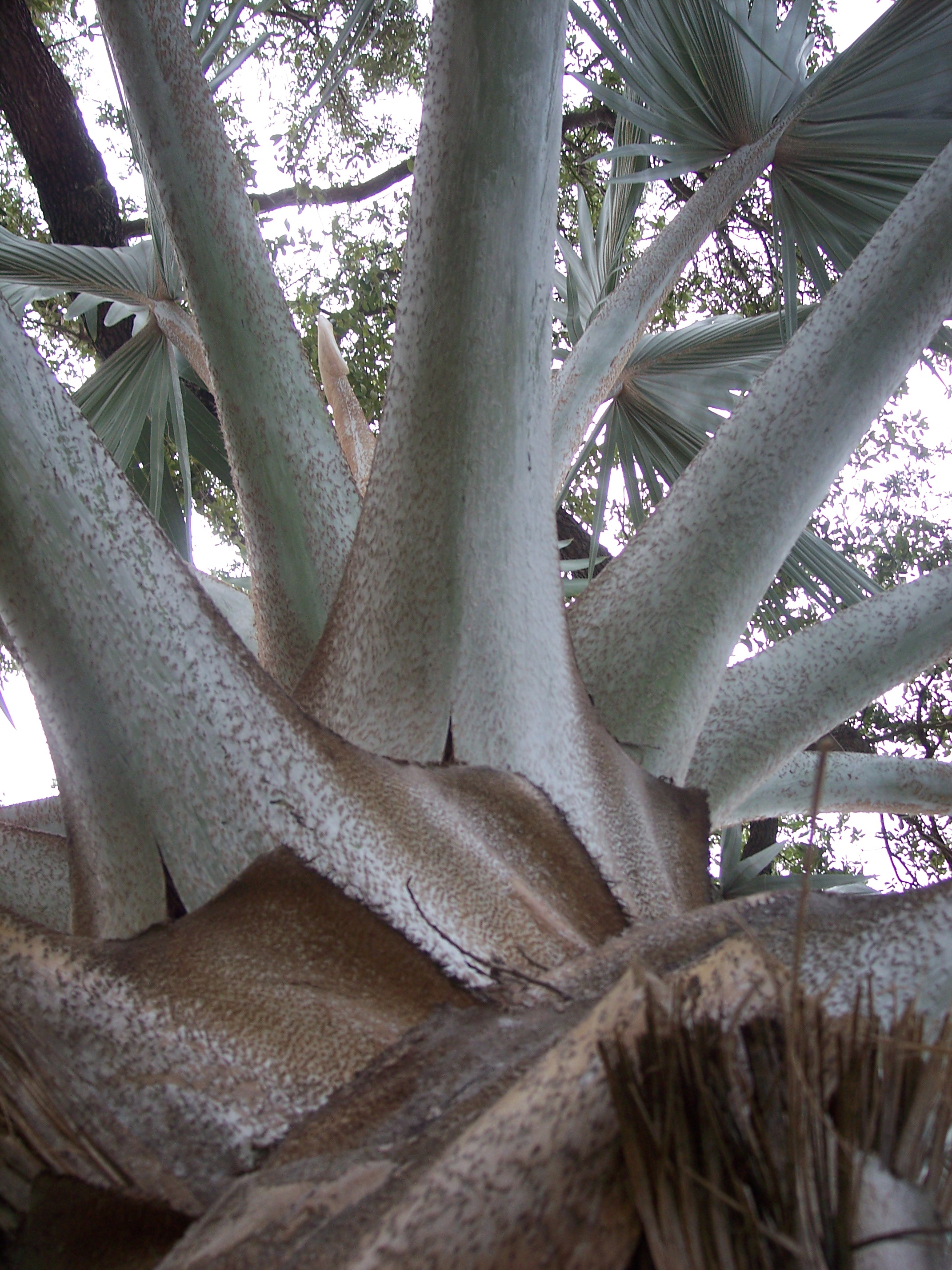 Cinnamon-colored scales on petioles.